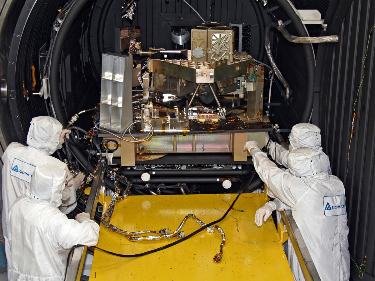 Fine Guidance Sensor Engineering Test Unit An engineering test unit of the Fine Guidance Sensor (FGS) about to undergo cryogenic testing at the David Florida Lab in Canada.